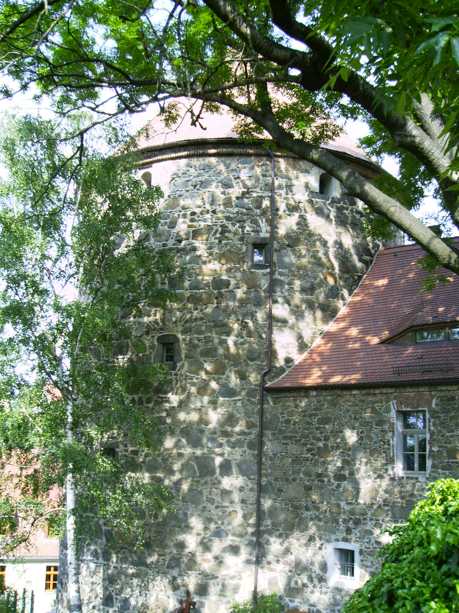 Bautzen; Gerberbastei tower